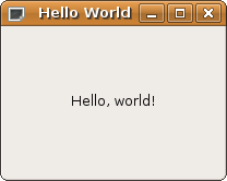 GTK+ "Hello World" program on Ubuntu using Human theme.